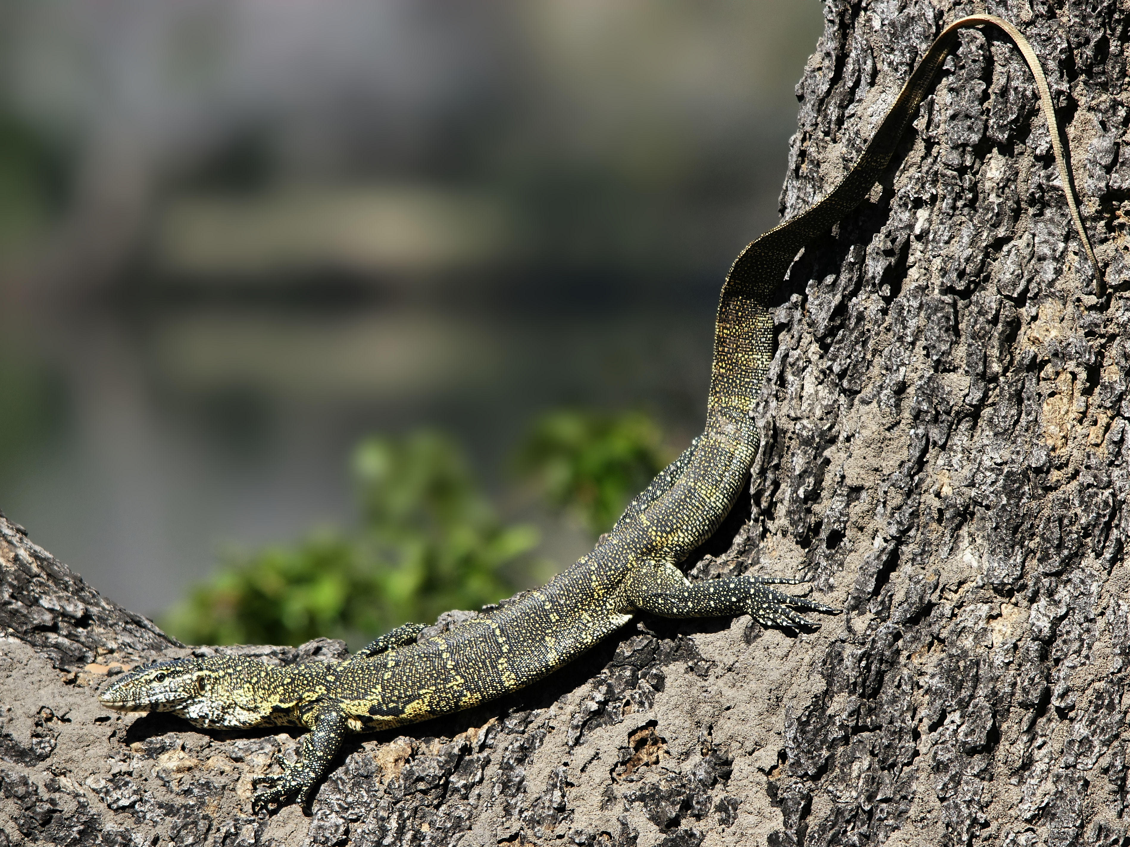 Nile monitor at Mosi-oa-Tunya national park, Livingstone, Zambia.